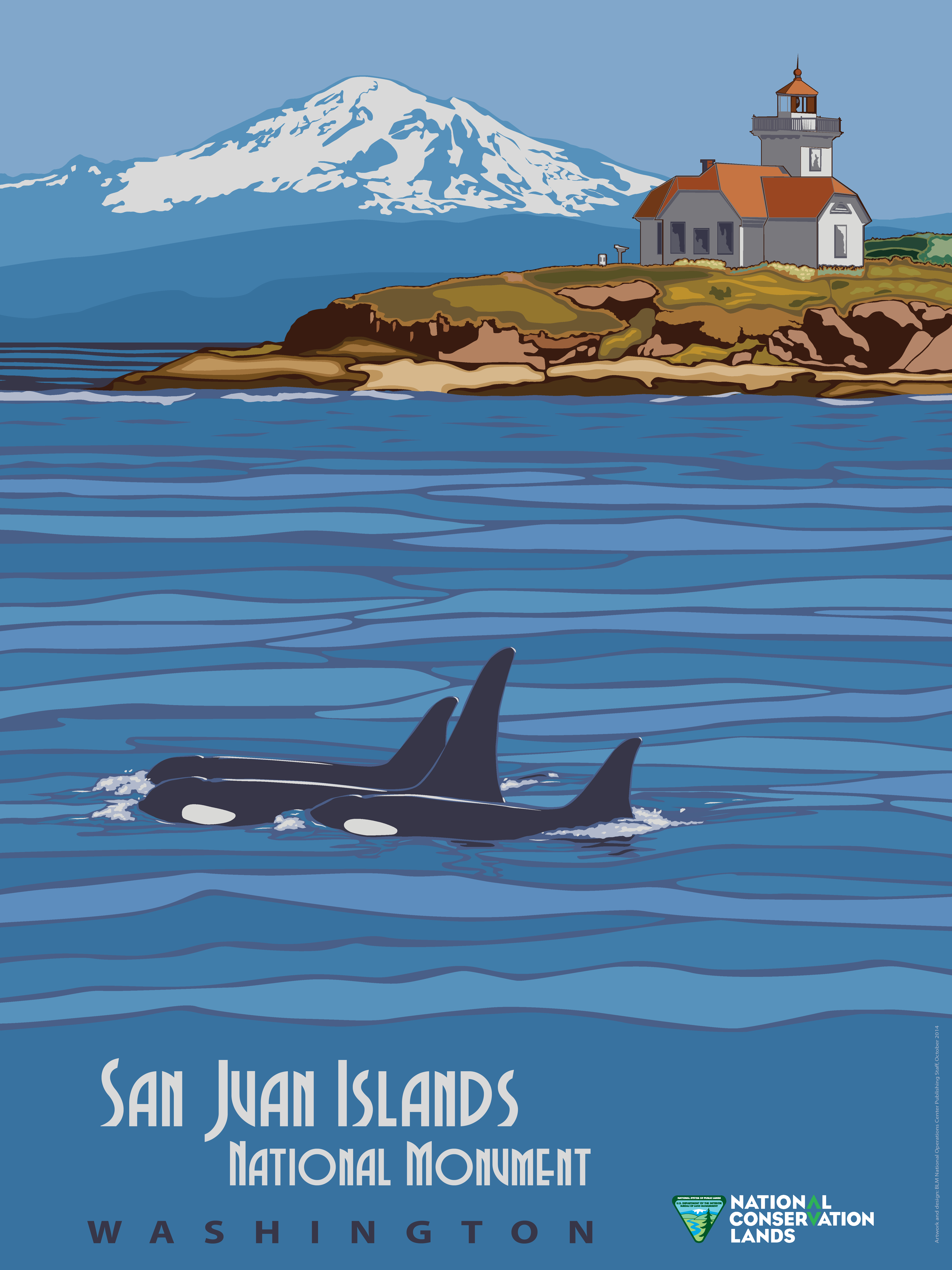 Situated in the northern reaches of Washington State’s Salish Sea, the San Juan Islands are a uniquely beautiful archipelago of more than 450 islands, rocks, and pinnacles. Within this area, the San Juan Islands National Monument encompasses nearly 1,000 acres on 75 rocks and islands. Woodlands, grasslands, and wetlands are intermixed with rocky balds, bluffs, intertidal areas, and sandy beaches. This wide array of habitats supports an equally varied collection of wildlife. Blacktail deer, river otter, mink, and a diversity of birdlife—including golden and bald eagles, the marbled murrelet, and the recently reintroduced western bluebird—thrive in this mild climate. Orcas, seals, and porpoises also attract a regular stream of wildlife watchers. With two historic lighthouses and a 12,000-year heritage of Coast Salish communities, the historical landscape is equally evocative. On March 25, 2013, a Presidential proclamation designated the area a national monument, managed by the Bureau of Land Management (BLM) as part of the National Landscape Conservation System. The best way to see the islands is by recreational watercraft, although some of the islands are accessible by ferry. Inquire before planning your trip. The vintage posters will be available at BLM state offices in both postcard and poster formats within the next few weeks. Requests for paper posters can also be sent to . Please include the word POSTER in the subject line and provide your name, mailing address, and the number and type of poster. Requests are limited to five posters per recipient. 6/17